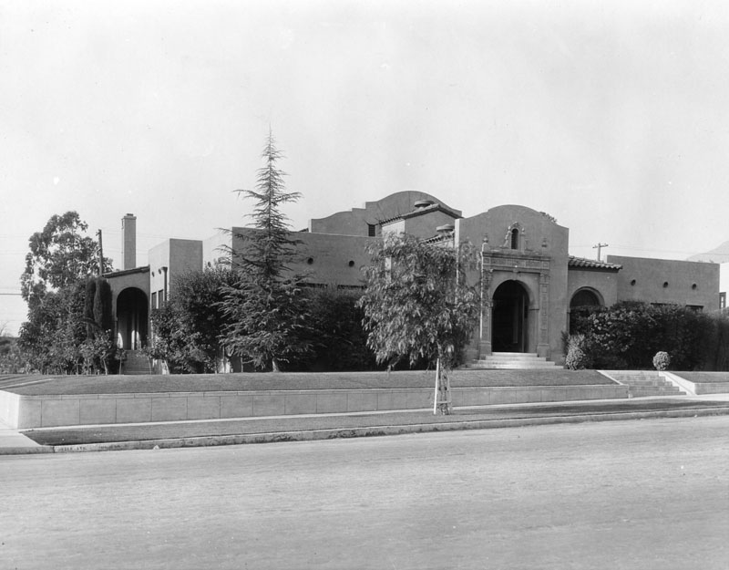 Title Woman's Club, Burbank Date Created and/or Issued [n.d.] Contributing Institution Los Angeles Public Library Collection Los Angeles Public Library Photo Collection Rights Information copyright unknown The copyright and related rights status of this Item has not been evaluated and/or determined. Please refer to the organization that has made the Item available for more information. Please contact: Digitization & Special Collections, Los Angeles Public Library, 630 W. 5th Street, Los Angeles, CA 90071; ; (213) 228-7353. Description Exterior view of the Woman's Club at 703 E. Olive Avenue in Burbank, Calif. LAPL00030785 Type Image Format Nonprojected graphic Extent 1 photograph : b&w Language English Subject Woman's Club of Burbank Women--Societies and clubs--California--Burbank (Los Angeles County) Clubhouses--California--Burbank (Los Angeles County) Sidewalks--California--Burbank (Los Angeles County) Streets--California--Burbank (Los Angeles County) Lawns--California--Burbank (Los Angeles County) Architecture--California--Burbank (Los Angeles County)--Spanish influences Lost architecture--California--Burbank (Los Angeles County) Burbank (Los Angeles County, Calif.) Place California Burbank (Los Angeles County) Burbank (Los Angeles County, Calif.)